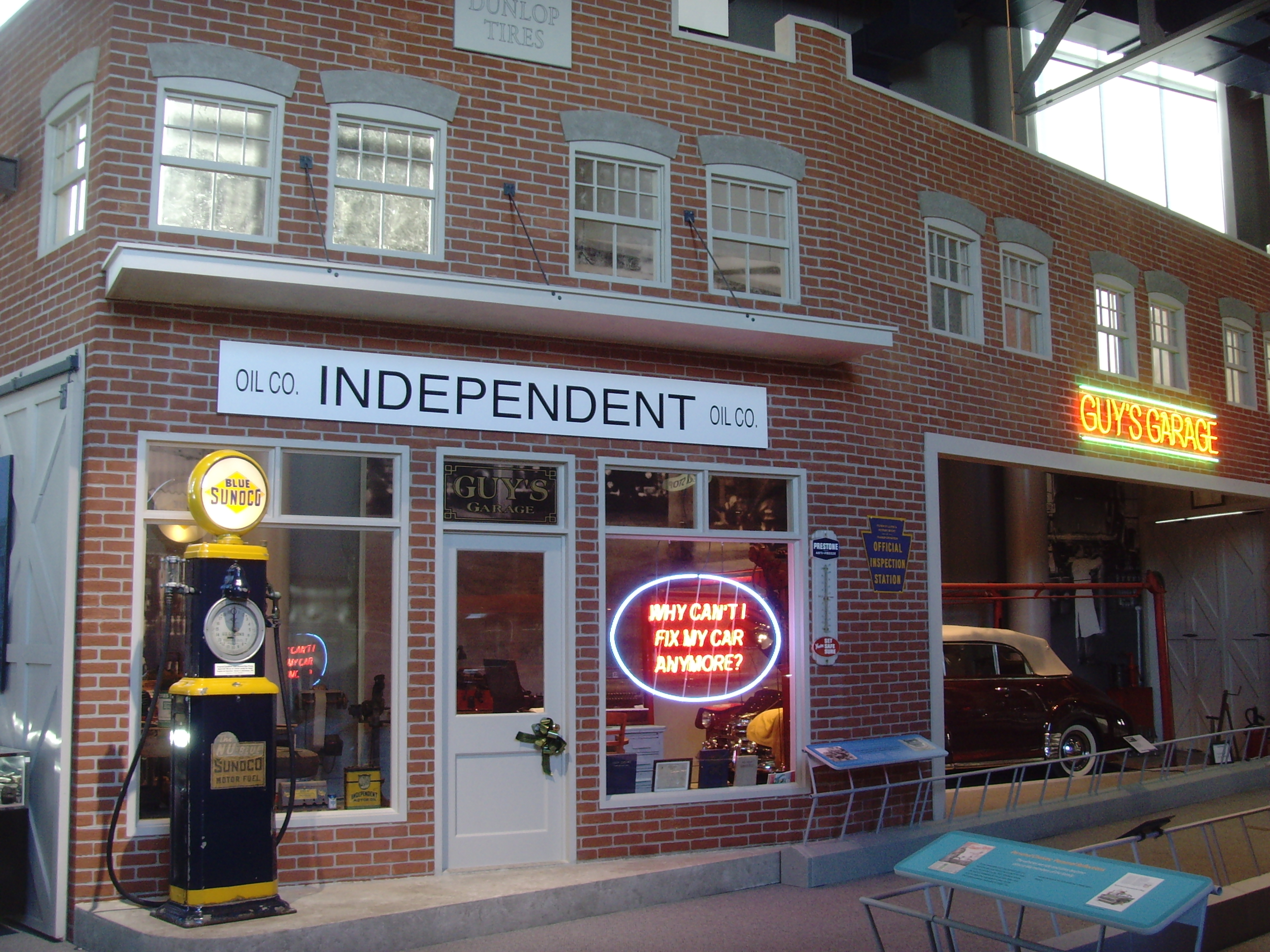 0082 Allentown - America on Wheels Auto Museum